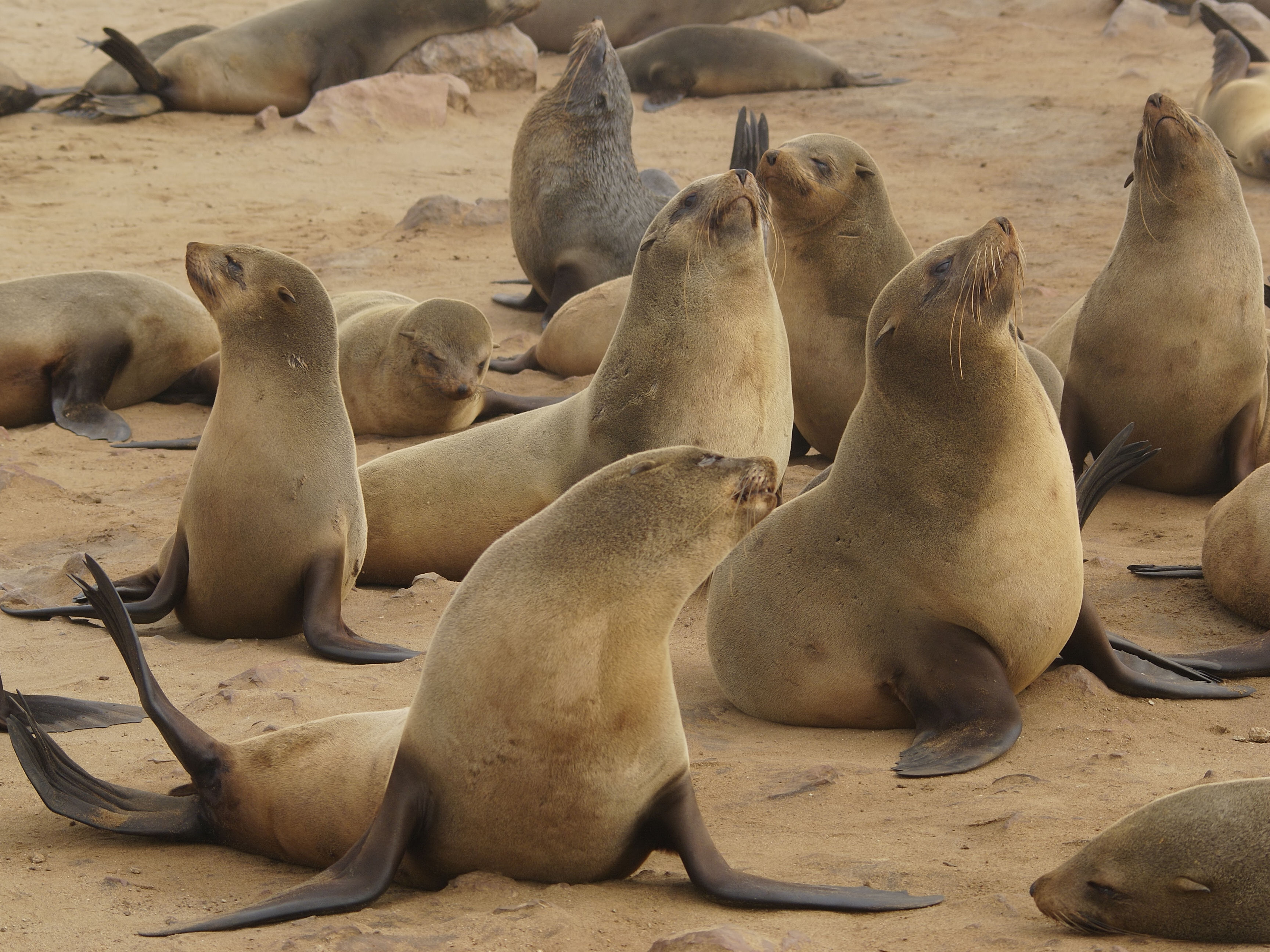 A colony of Cape Fur Seals at Cape Cross on the Skeleton Coast, Namibia